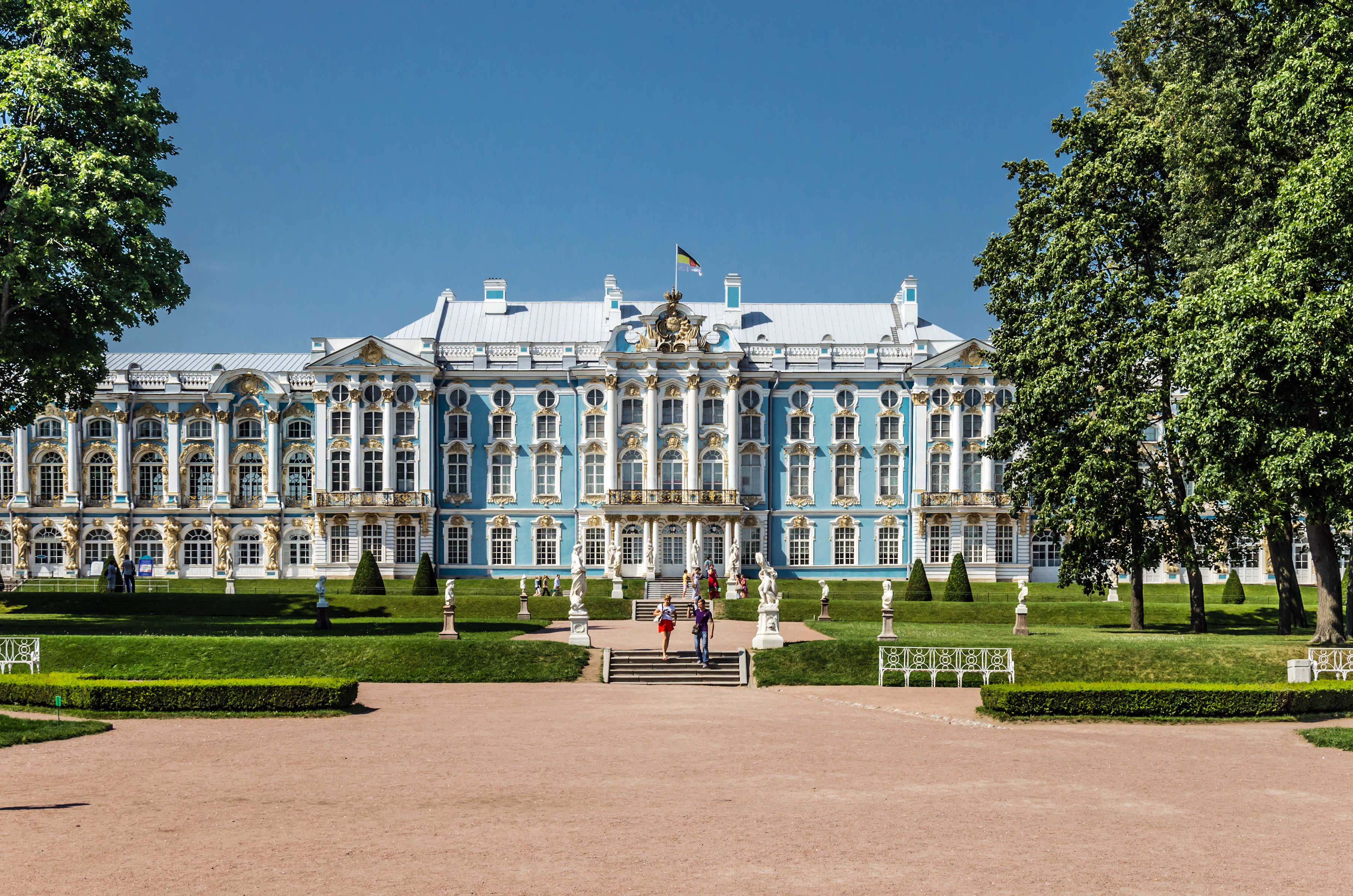 Catherine Palace in Tsarskoe Selo, Saint Petersburg